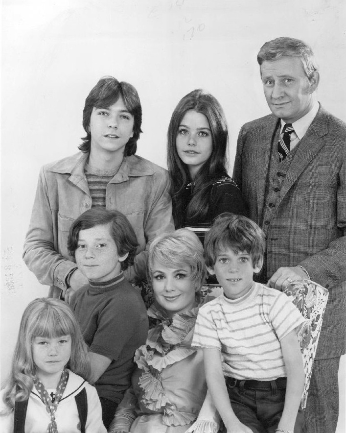 Publicity photo of television actors, (standing; L–R) David Cassidy, Susan Dey, Dave Madden, (sitting; L–R) Danny Bonaduce, Shirley Jones, Jeremy Gelbwaks, and (front; left) Suzanne Crough promoting the ABC comedy series The Partridge Family, circa 1970.